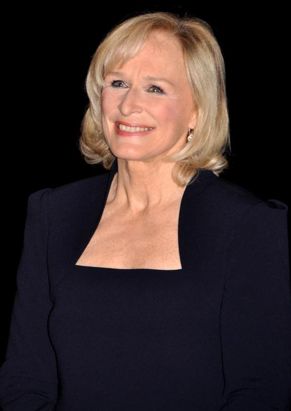 Glenn Close in Paris at the French premiere of Albert Nobbs.